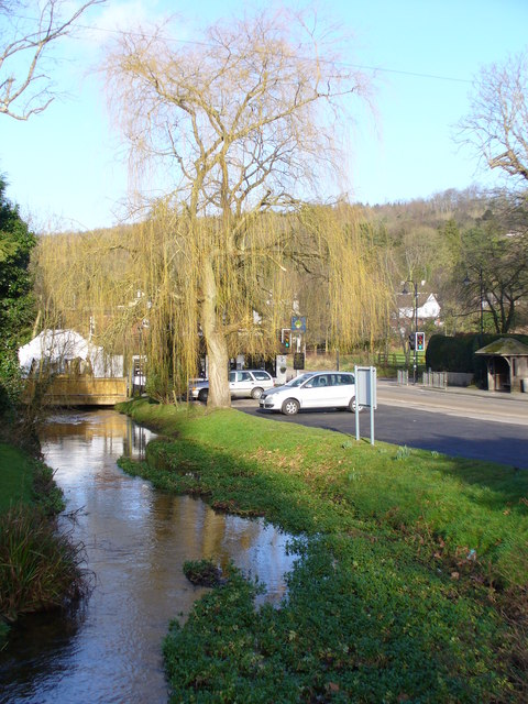 Tilling Bourne Shallow tributary of the River Wey seen here flowing westwards from Gomshall Mill along the foot of the North Downs. Willows line the banks at the Compasses' car park.